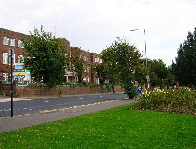 Territorial Army Centre, Dyke Road Originally erected as a drill hall during the Second World War to replace older and inadequate ones in the centre of town. Part of its grounds includes Highcroft House whose two lodges are now separate homes.